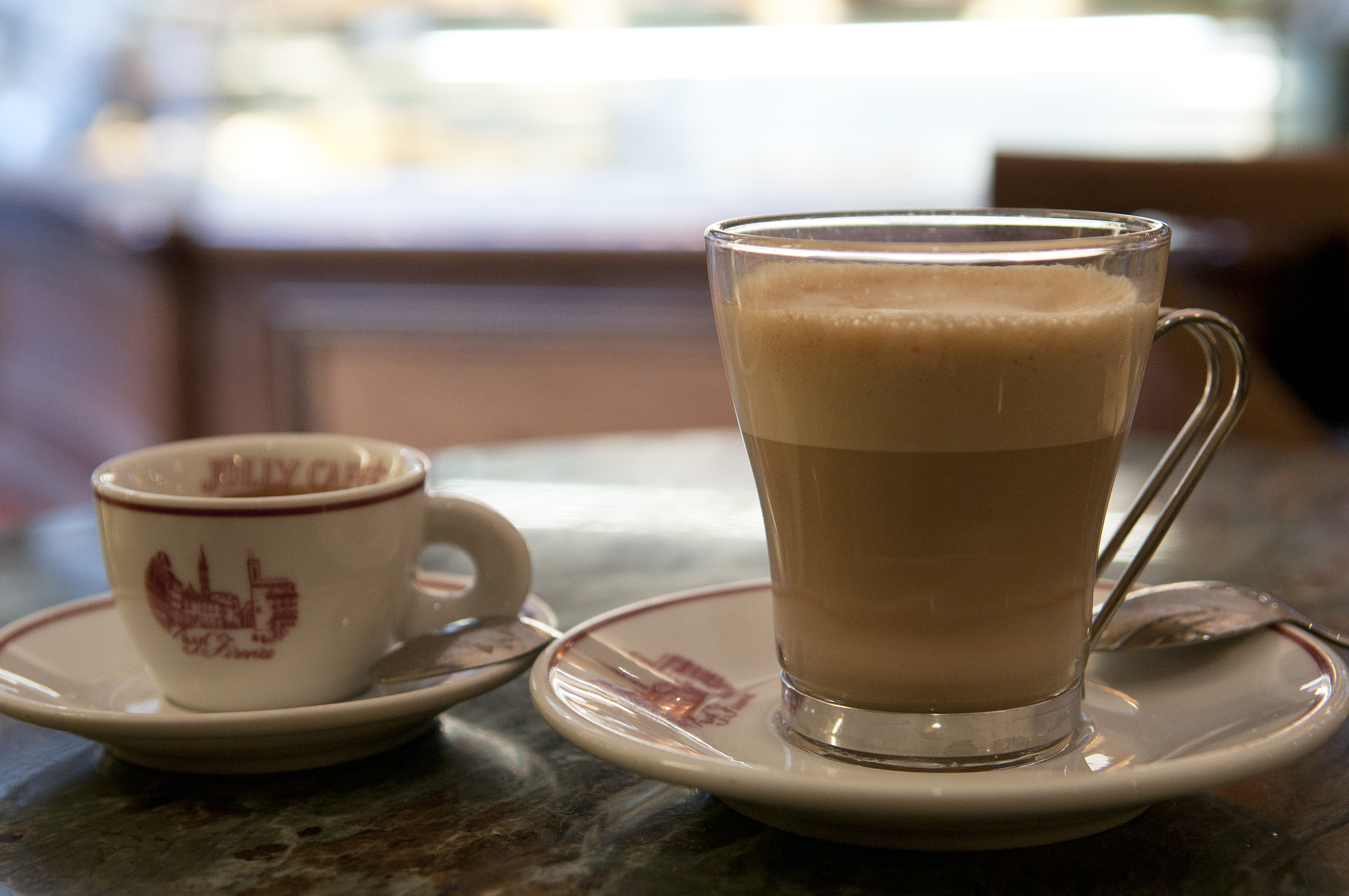 coffee in Florence